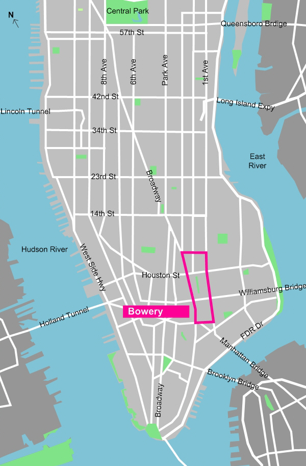 map of the Bowery Neighborhood in Manhattan, New York City